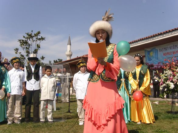 Kazakistan'da Nevruz Kutlamaları